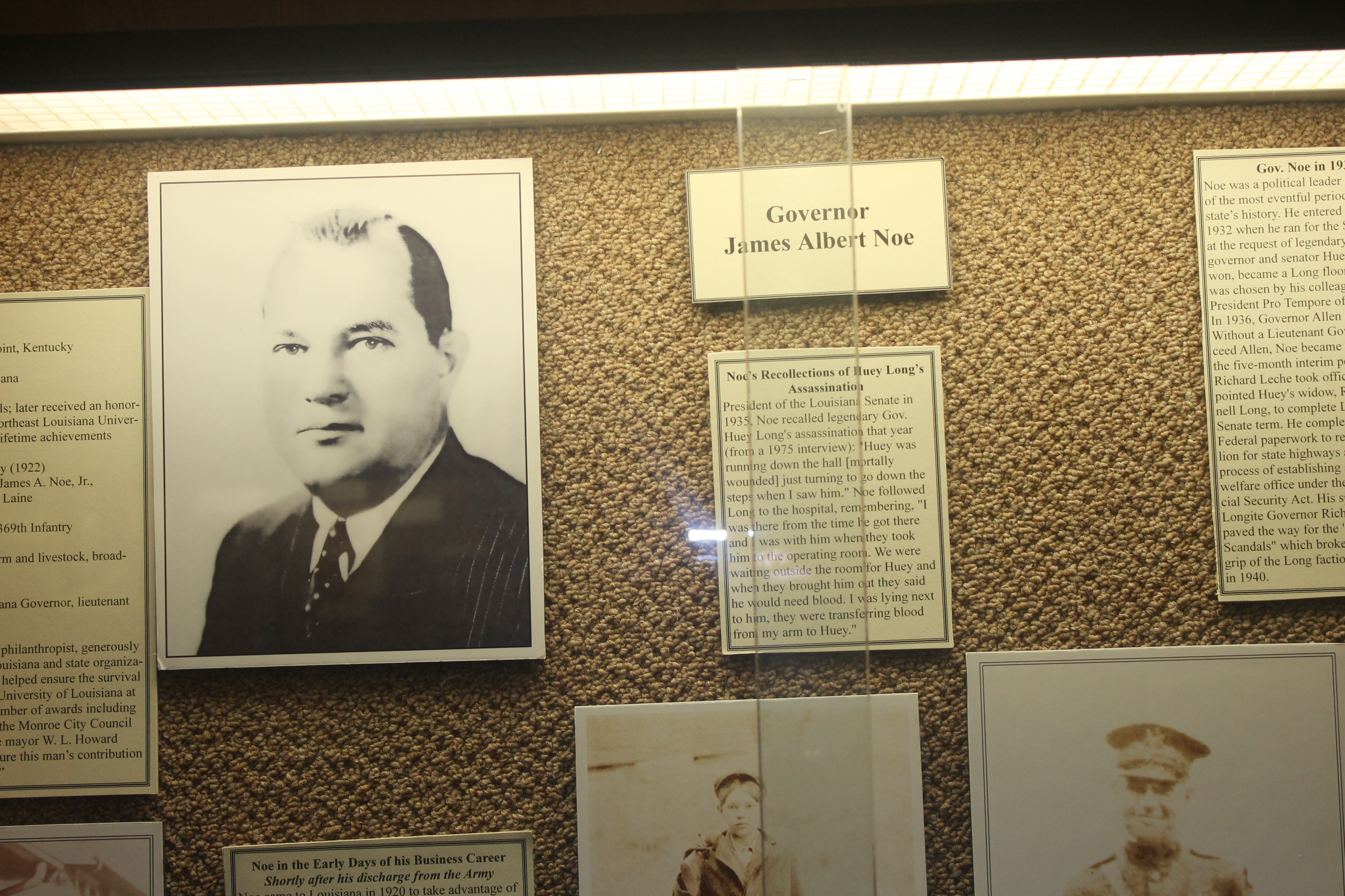 James A. Noe exhibit at Chennault Museum in Monroe, LA